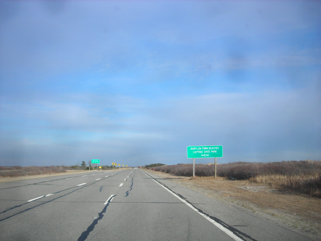 The Ocean Parkway in Babylon, approaching the town beaches.